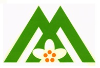 Iizuna Nagano chapter